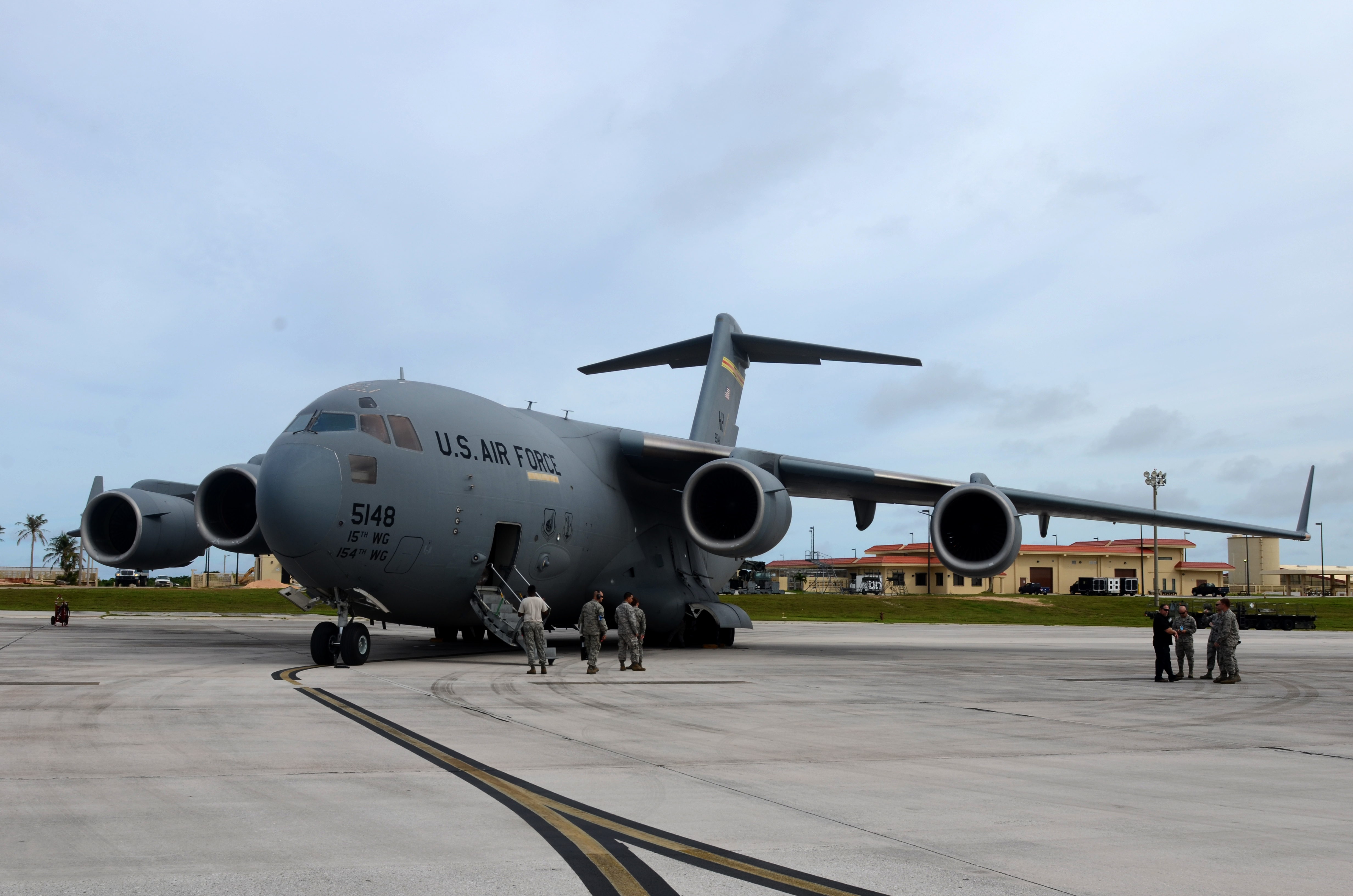 A C-17 Globemaster III aircrew from Hawaii Air National Guard evacuates more than 125 Department of Defense members from Wake Island to Andersen Air Force Base, Guam, July 15, 2015. The members were evacuated here due to the potential storm surge from Typhoon Halola as it nears Wake Island. (U.S. Air Force photo by Airman 1st Class Alexa Ann Henderson/Released)